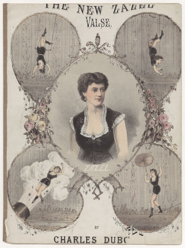 Rossa Matilda Richter, "The New Zazel" by Alfred Concanen. Sometime between 1877 (when Zazel first started performing) and 1886 (Concanen's death).